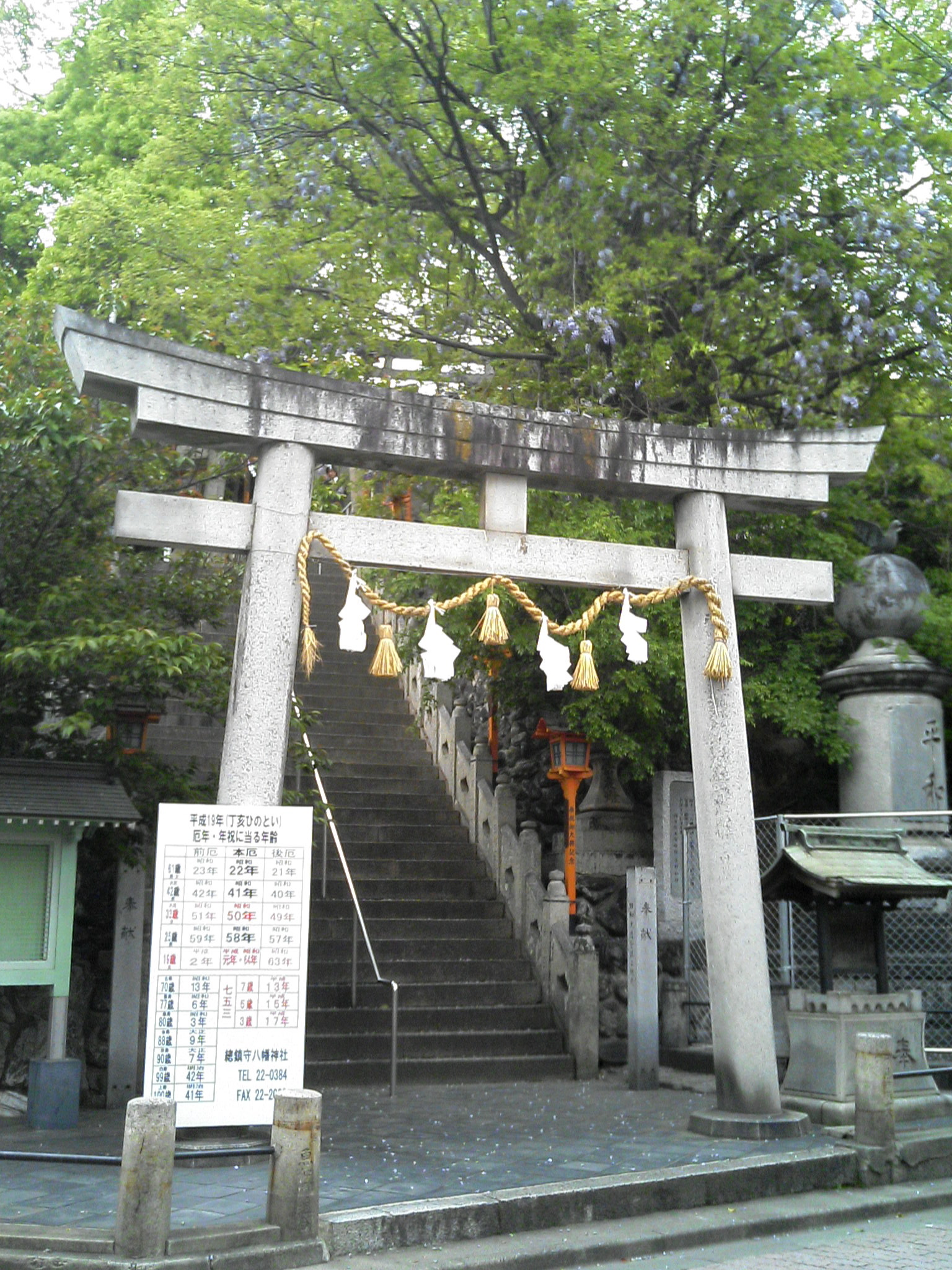 The south entrance torii (鳥居 Torii) to the Hachiman Shrine (八幡神社 Hachiman jinja) in Yawatahama, Ehime, Japan